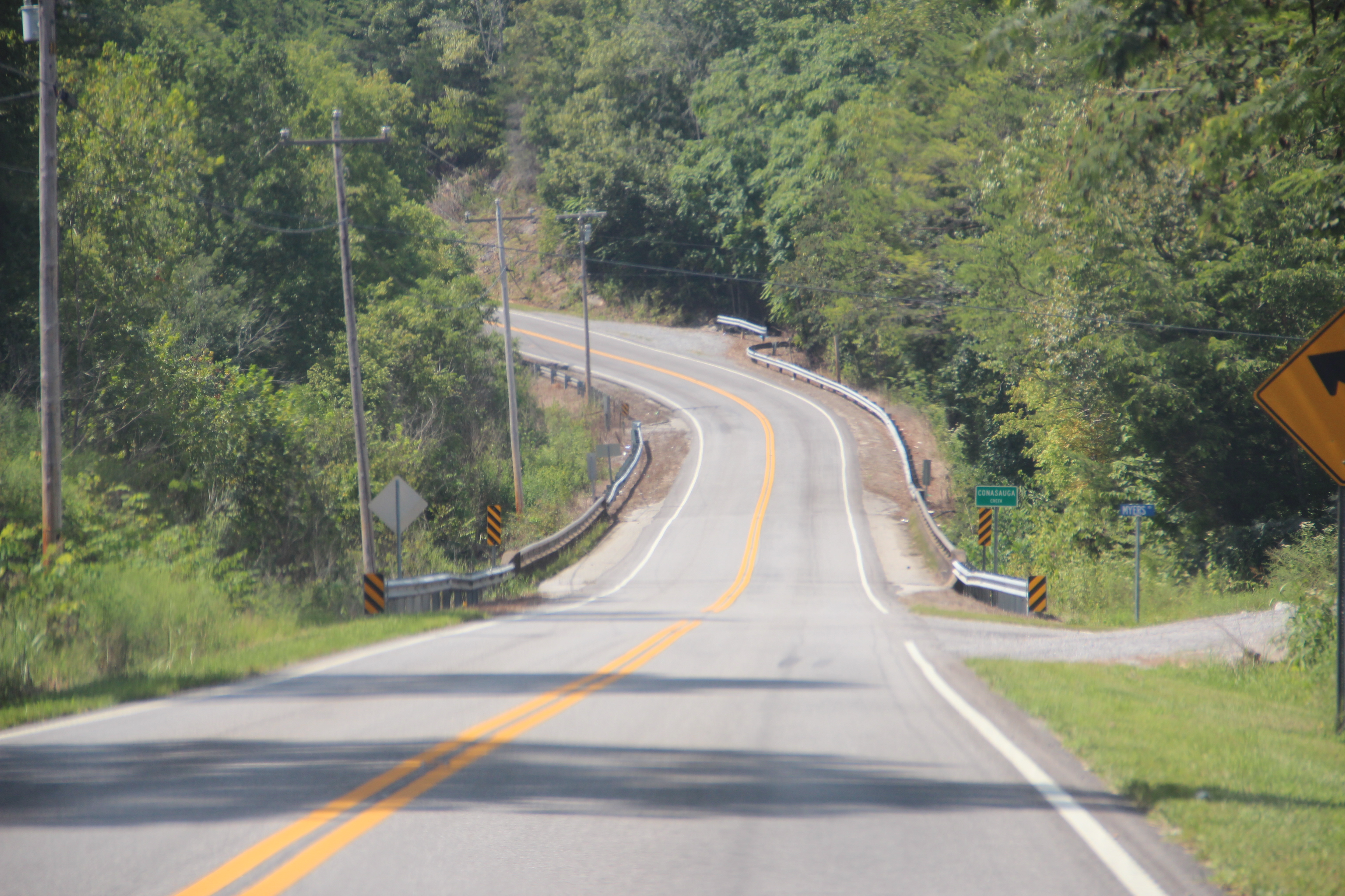 Tennessee State Route 39 in Monroe County